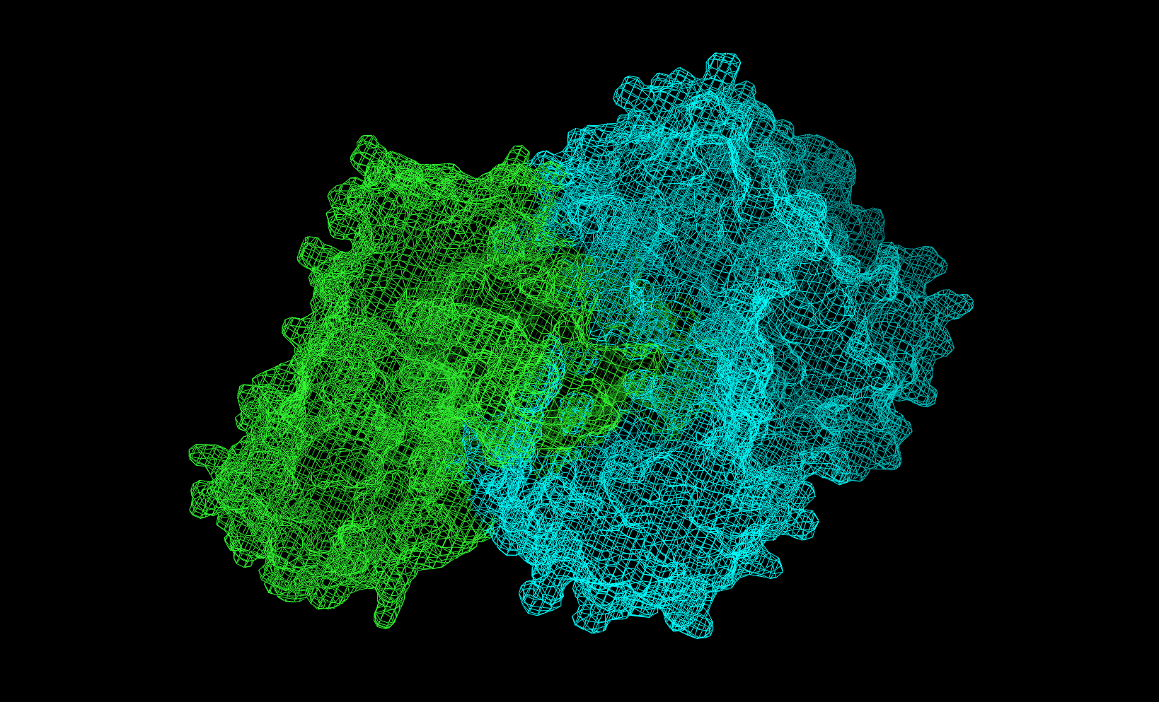 This is a picture of the enzyme, MenD. It shows the two chains that are put together to make the enzyme